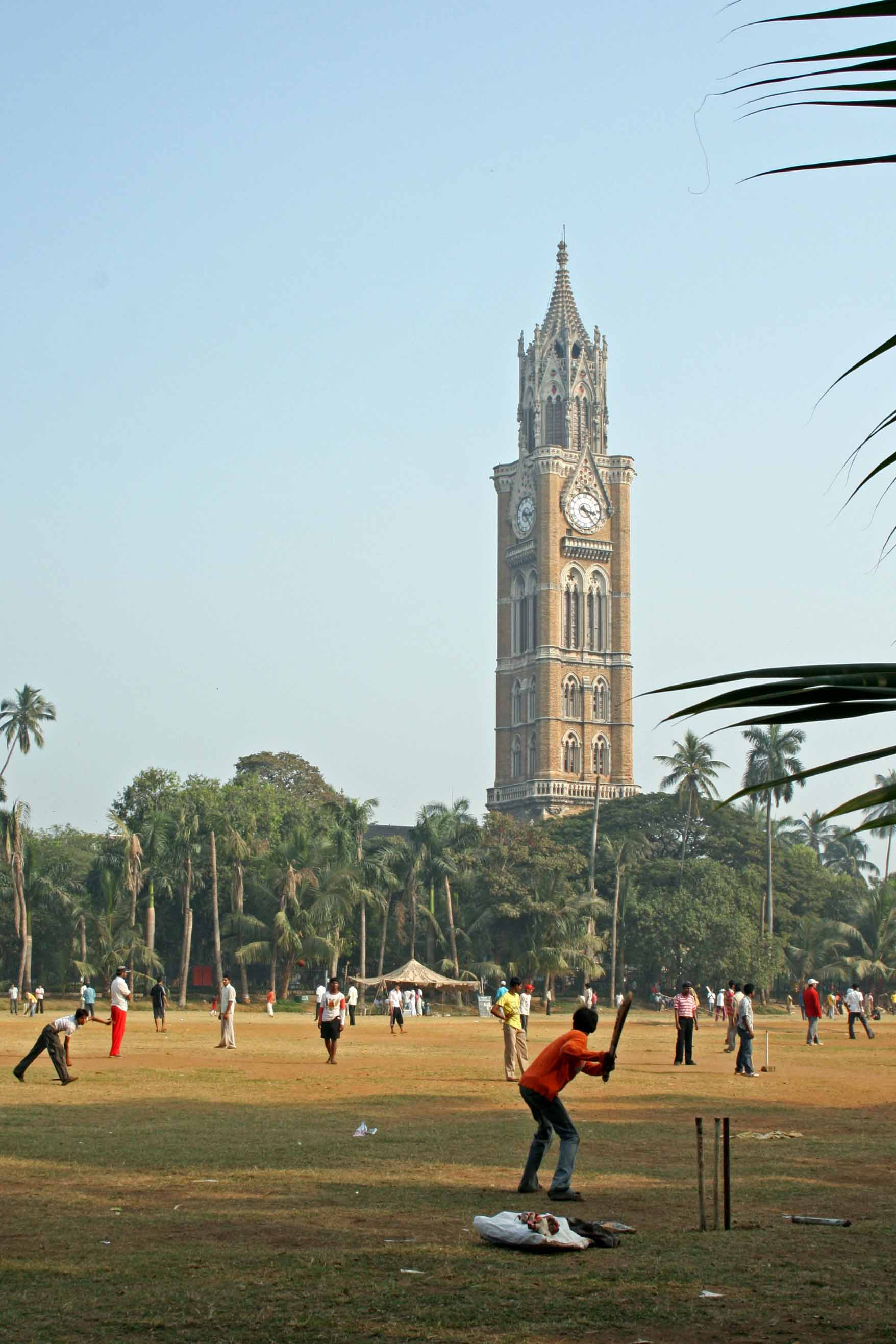 Kids playing cricket in Mumbai. The Rajabai Clock Tower is in the background.